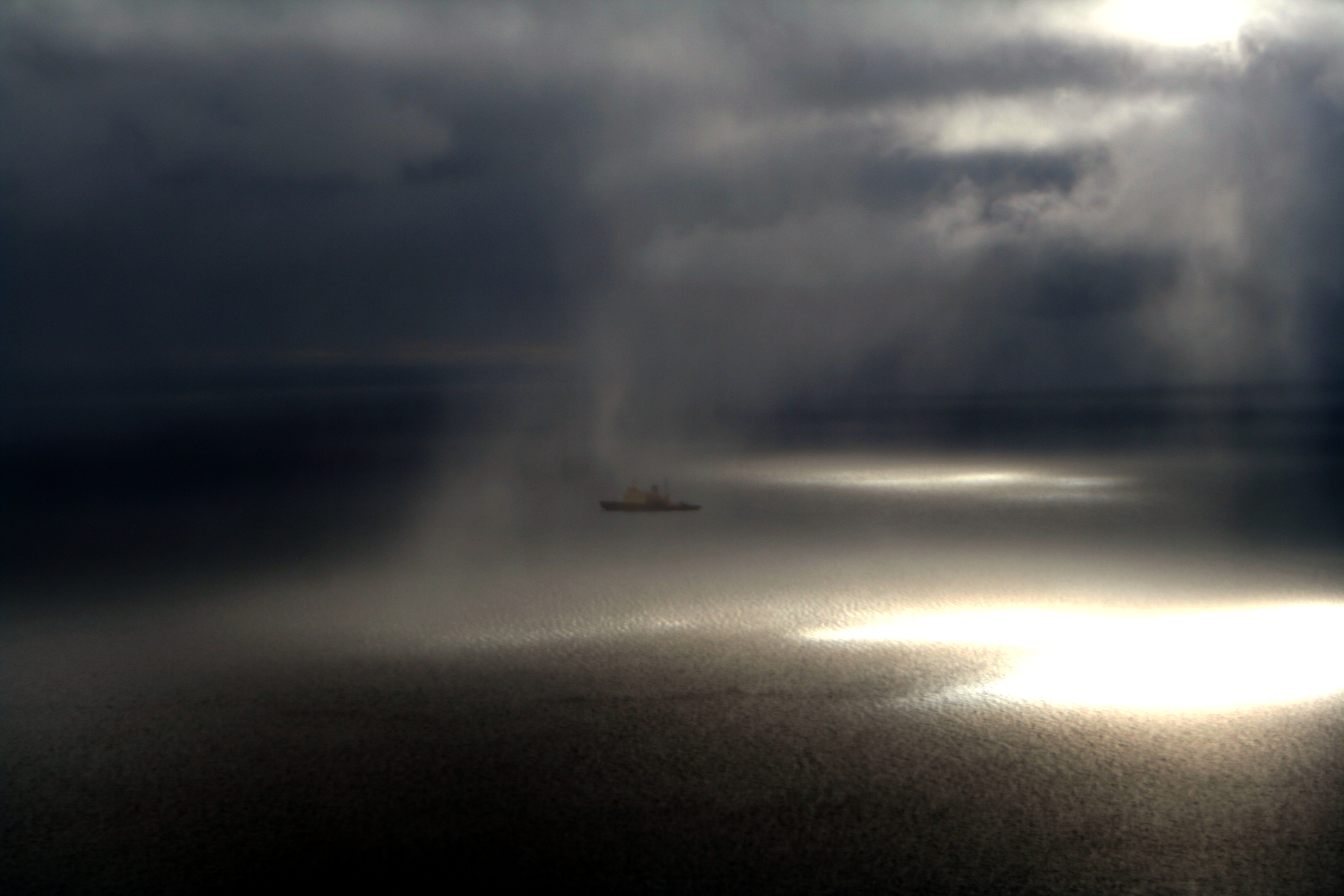 A lonely ship in a Fog at Baffin Bay. The picture was taken from a helicopter.